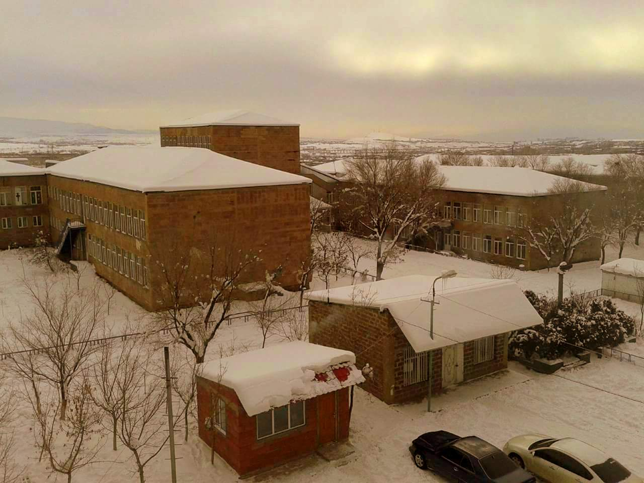 Byureghavan, Armenia, January 2016